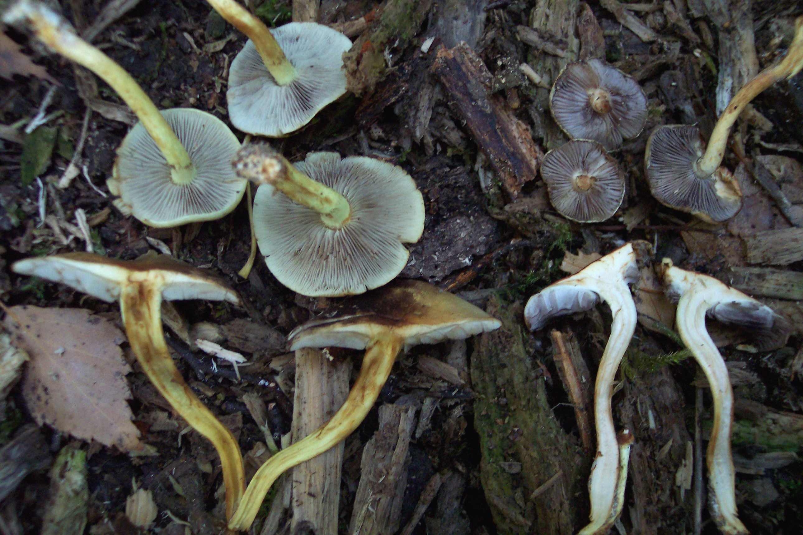 Sulphur tuft and Hypholoma lateritium